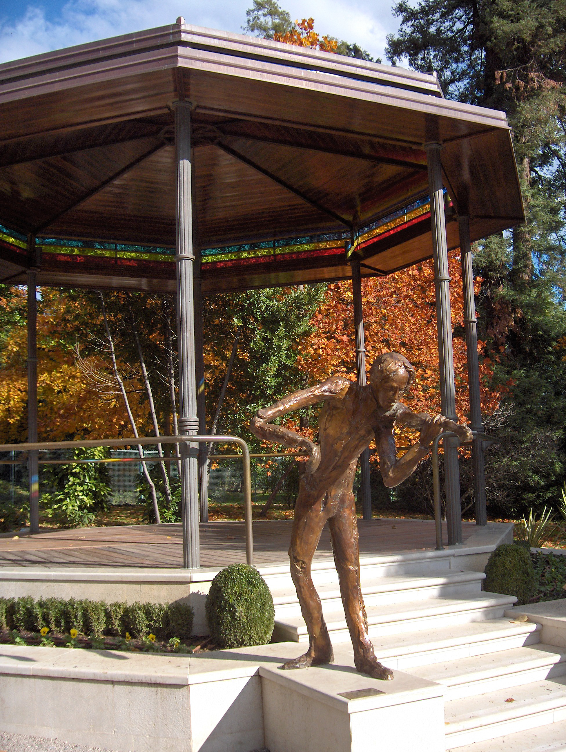 Sculpture of the violinist Jan Kubelik (author : T. Kostanjević, 2007) in Opatija, Croatia.